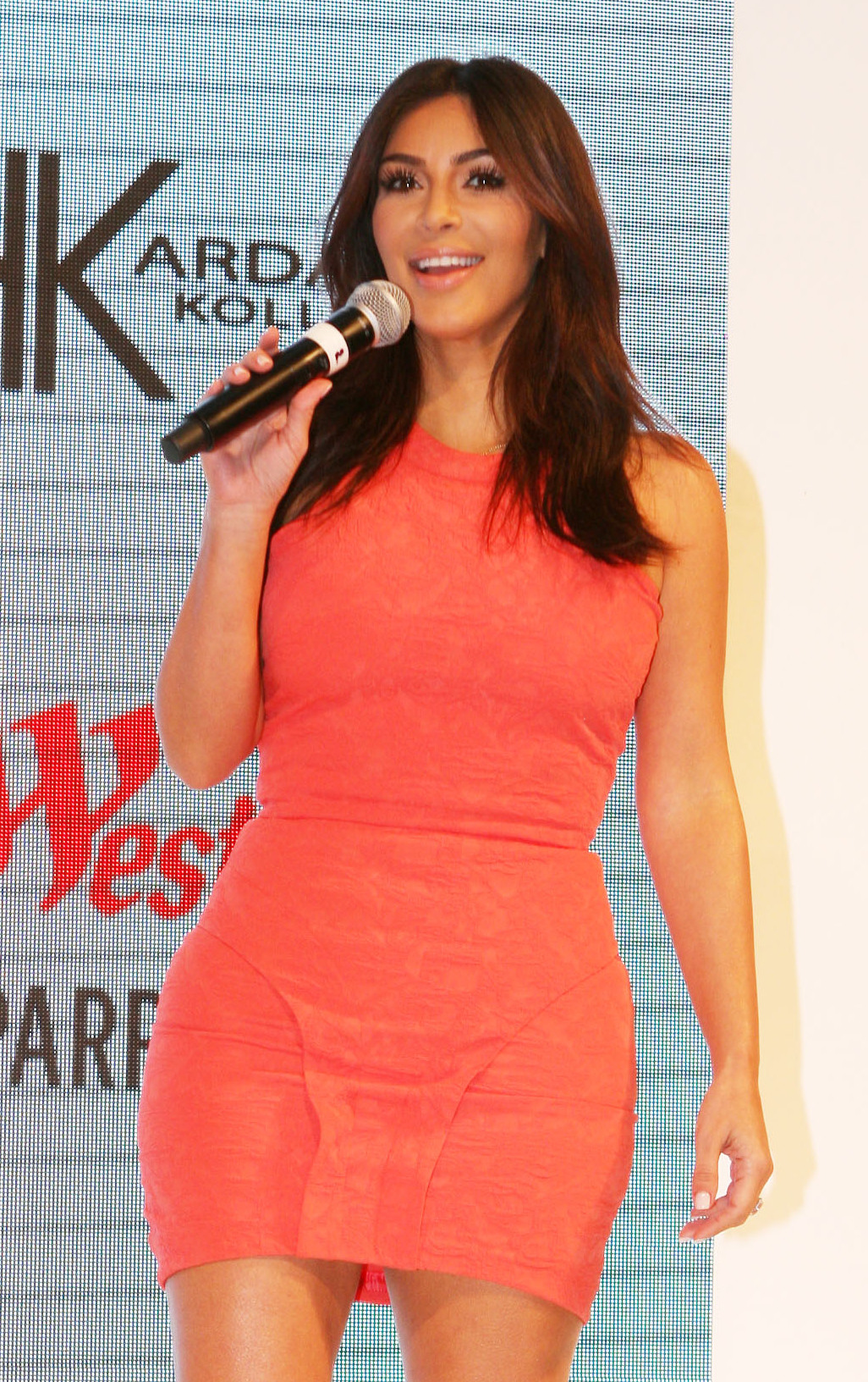 Kim Kardashian West, Parramatta Westfield Sydney Australia